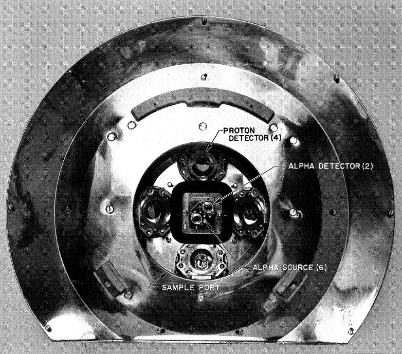 View of bottom of alpha scattering instrument sensor head. Surveyor spacecraft